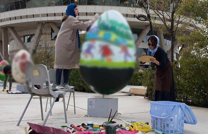 Nowruz 2018 Egg Painting Festival, Tehran